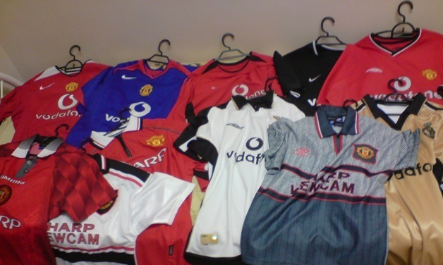 A collection of Manchester United costumes over the years